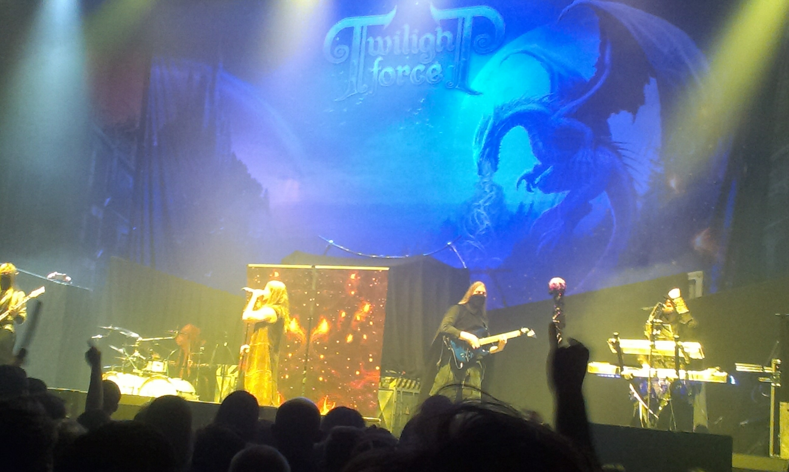 Twilight Force, Prague, 4. 3. 2017